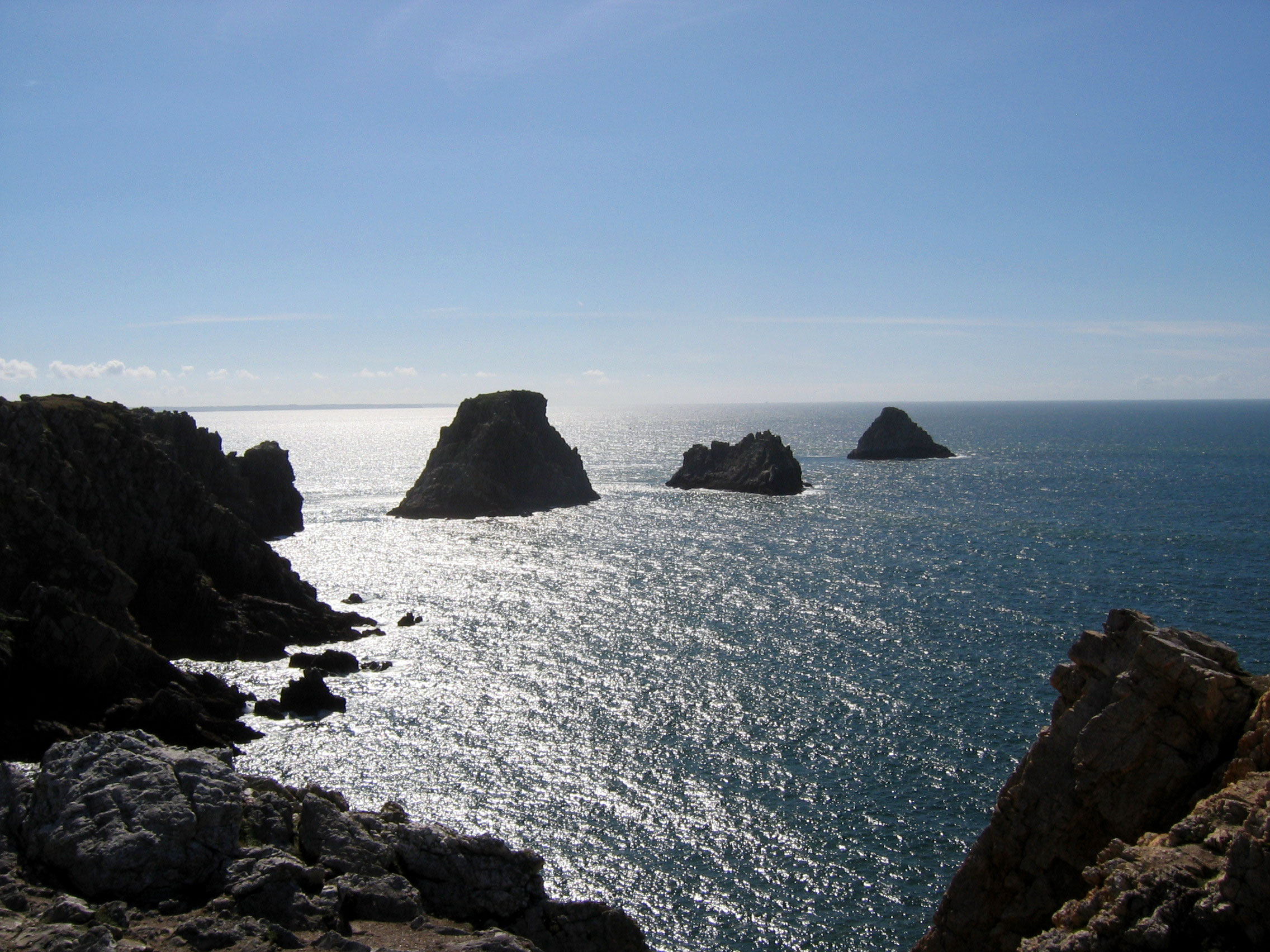 The Tas de Pois (pile of peas) from the Pointe de Penhir at Camaret-sur-Mer